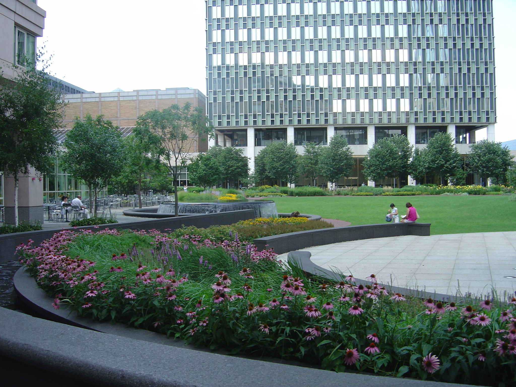 Publicly-accessible outdoors Prudential Center courtyard at base of tower, Boston, MA Photograph taken by me with a Sony Cybershot Digital camera, July 2006.